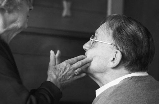 Resident of a nursing home in Munich (Germany)